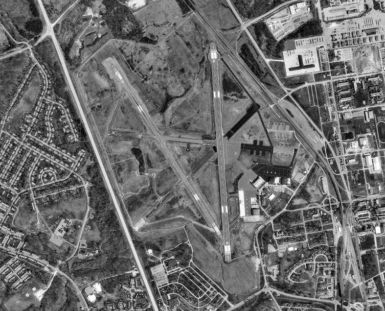 USGS digital orthophoto of Godman Army Airfield, formerly Godman Air Force Base, in Kentucky